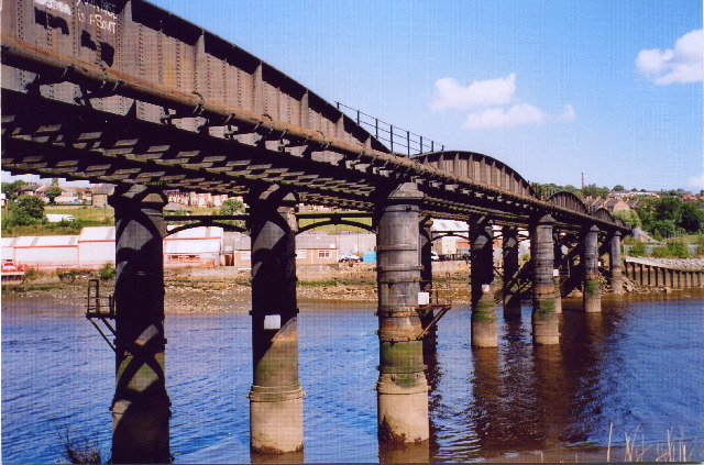 Scotswood railway bridge over River Tyne, England.